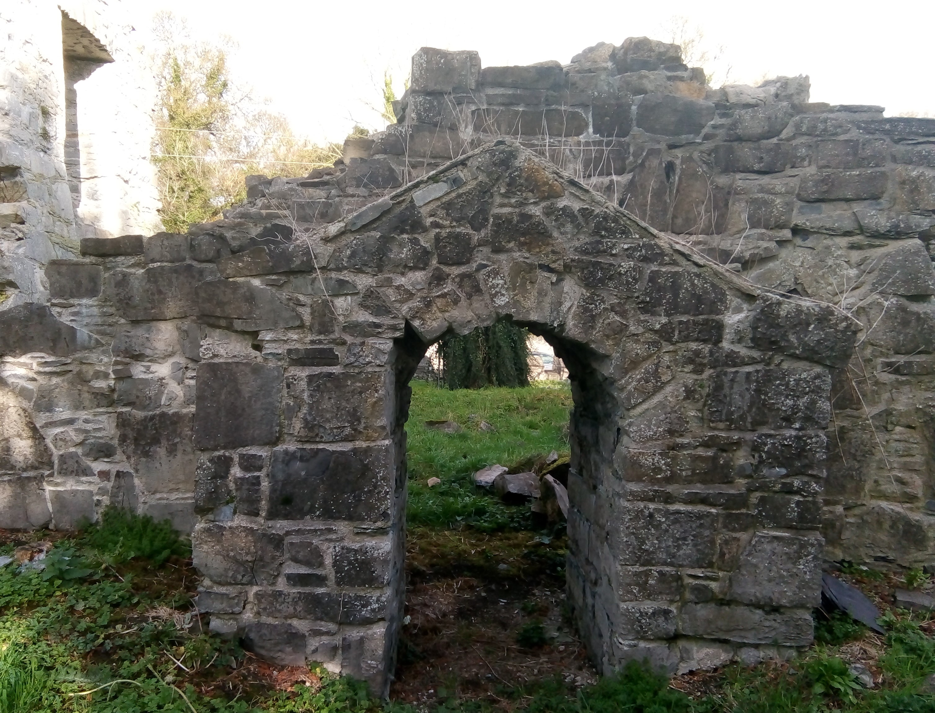 Donaghcumper Church, Celbridge - porch